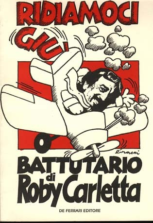 Roby Carletta